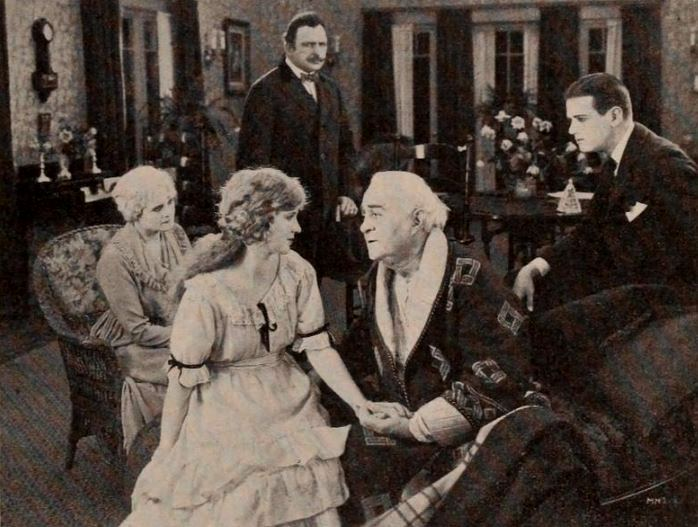 Still from the American film Judy of Rogue's Harbor (1920) with Mary Miles Minter and several unidentified actors, on page 53 of the February 21, 1920 Exhibitors Herald.